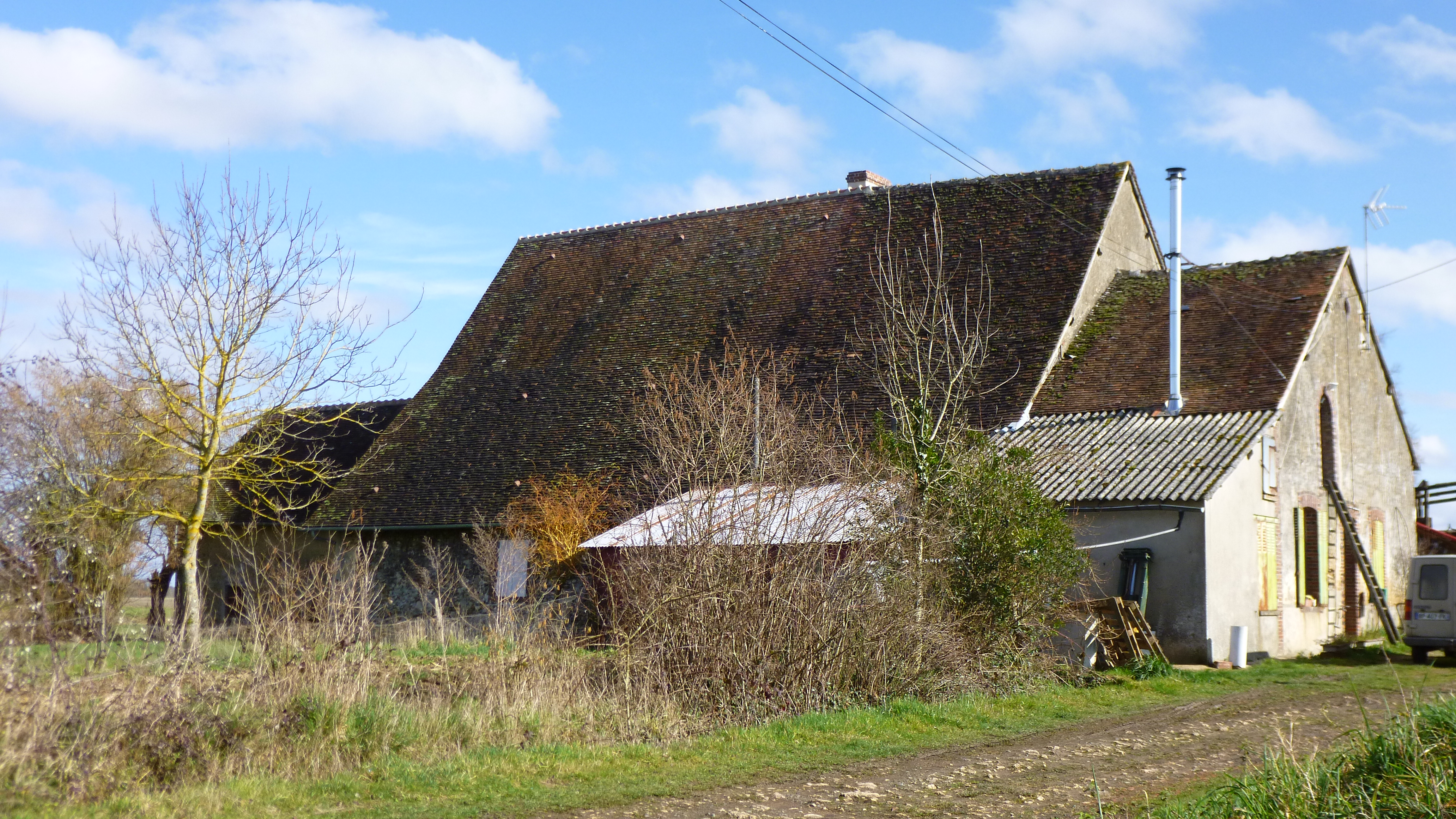 Saint-Martin-sur-Ouanne, Yonne, Burgundy, France. Boissel hamlet. This place was a lazar house built in the 13th century.